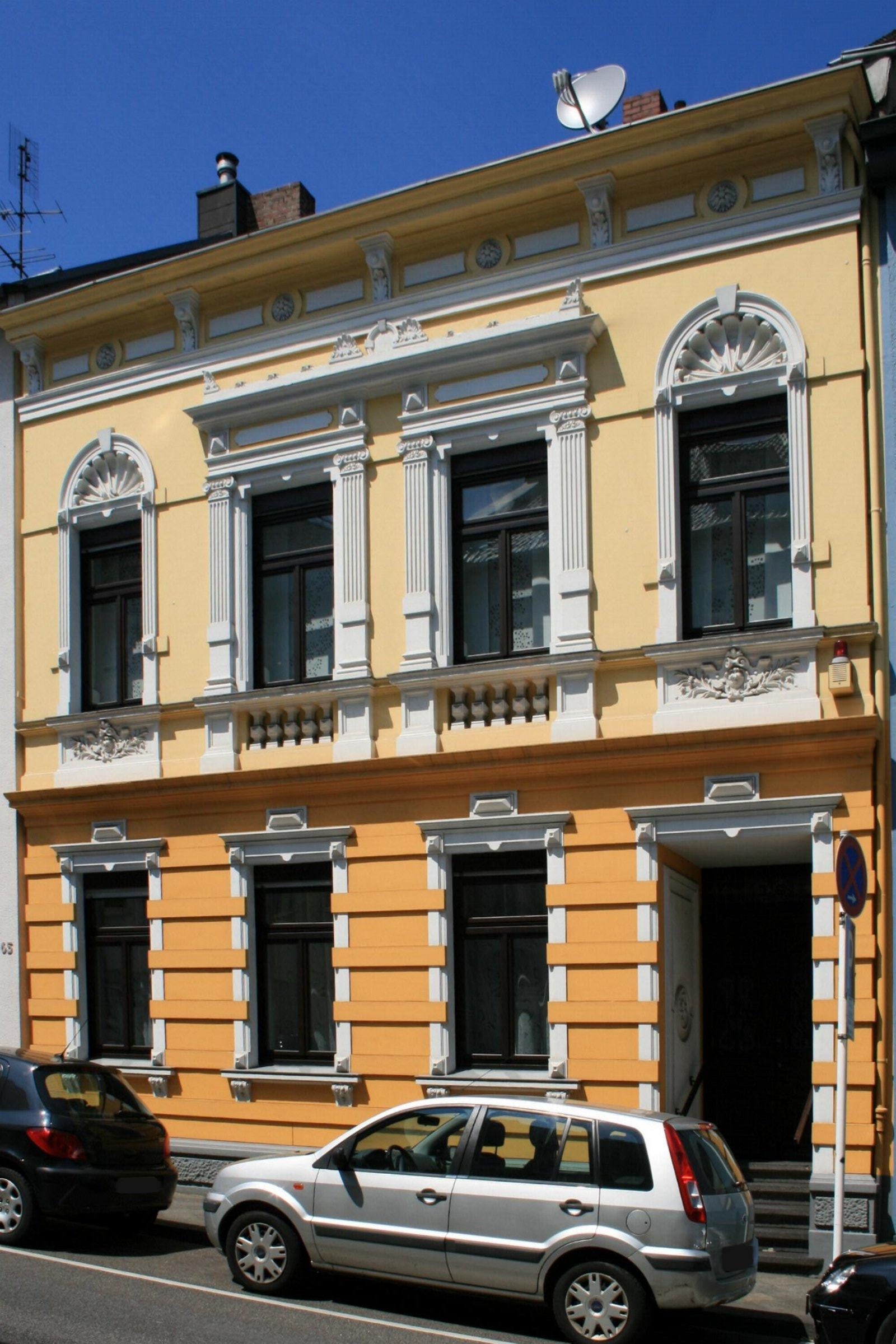 Cultural heritage monument No. P 001 in Mönchengladbach